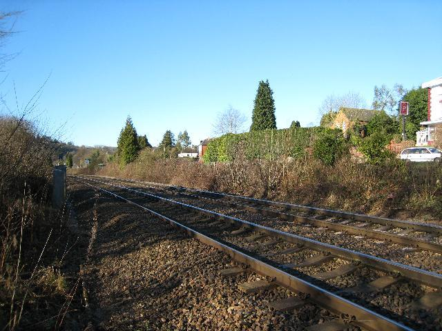 Site of Brimscombe Station This view of the Swindon - Gloucester railway line from the footpath crossing at Brimscombe shows all that is left (i.e. nothing!) of the former Brimscombe Station. The bushes on either side mark the site of the platforms of what was a complete station, complete with footbridge, signal boxes and good yard. Compare with taken from the same point and looking in a similar direction from on the other side of the line.